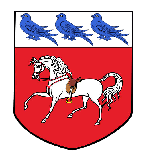 coat of arms of the O'Hallorans